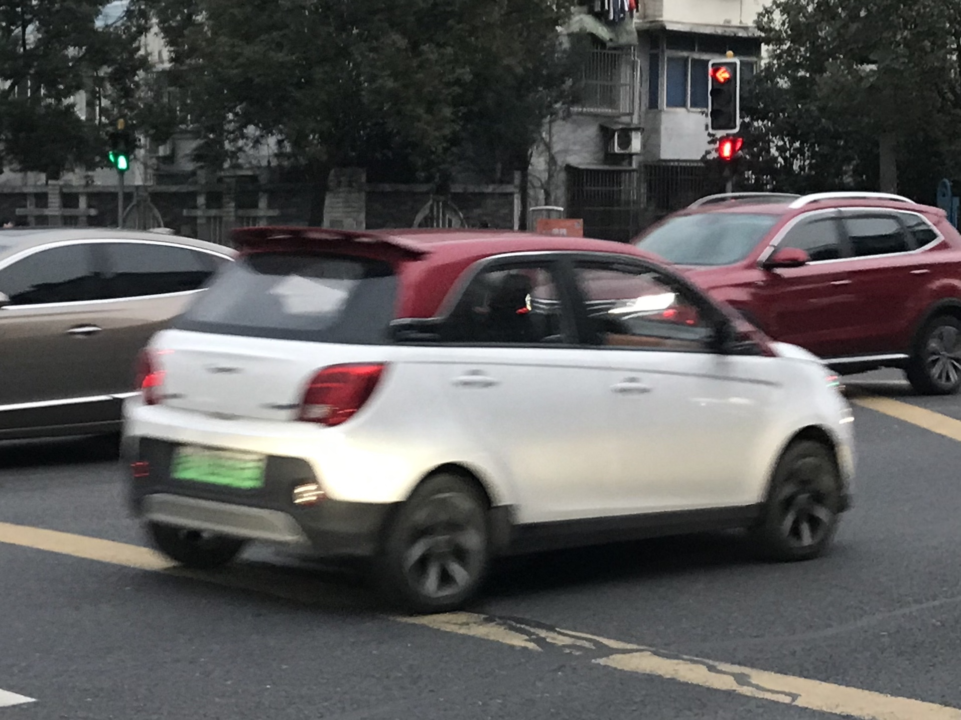 Dearcc EV10 rear